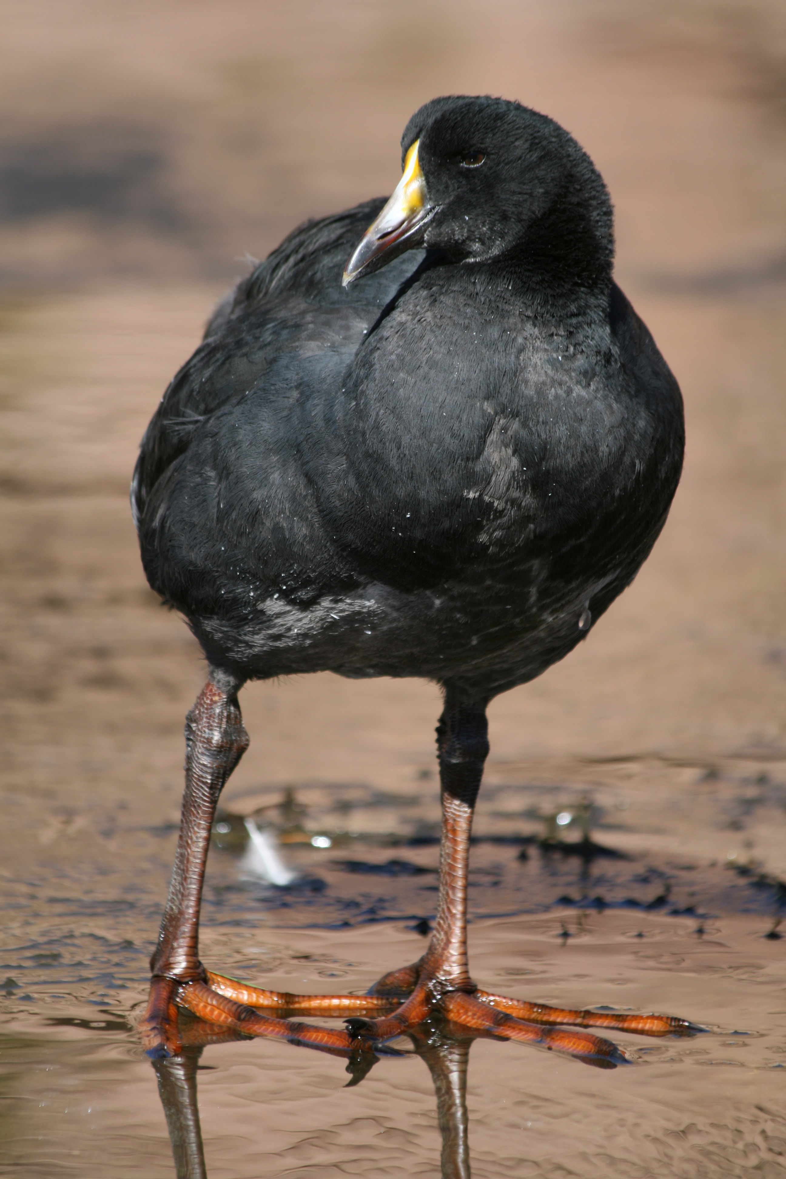 Giant Coot (Fulica gigantea) in Northern Chile